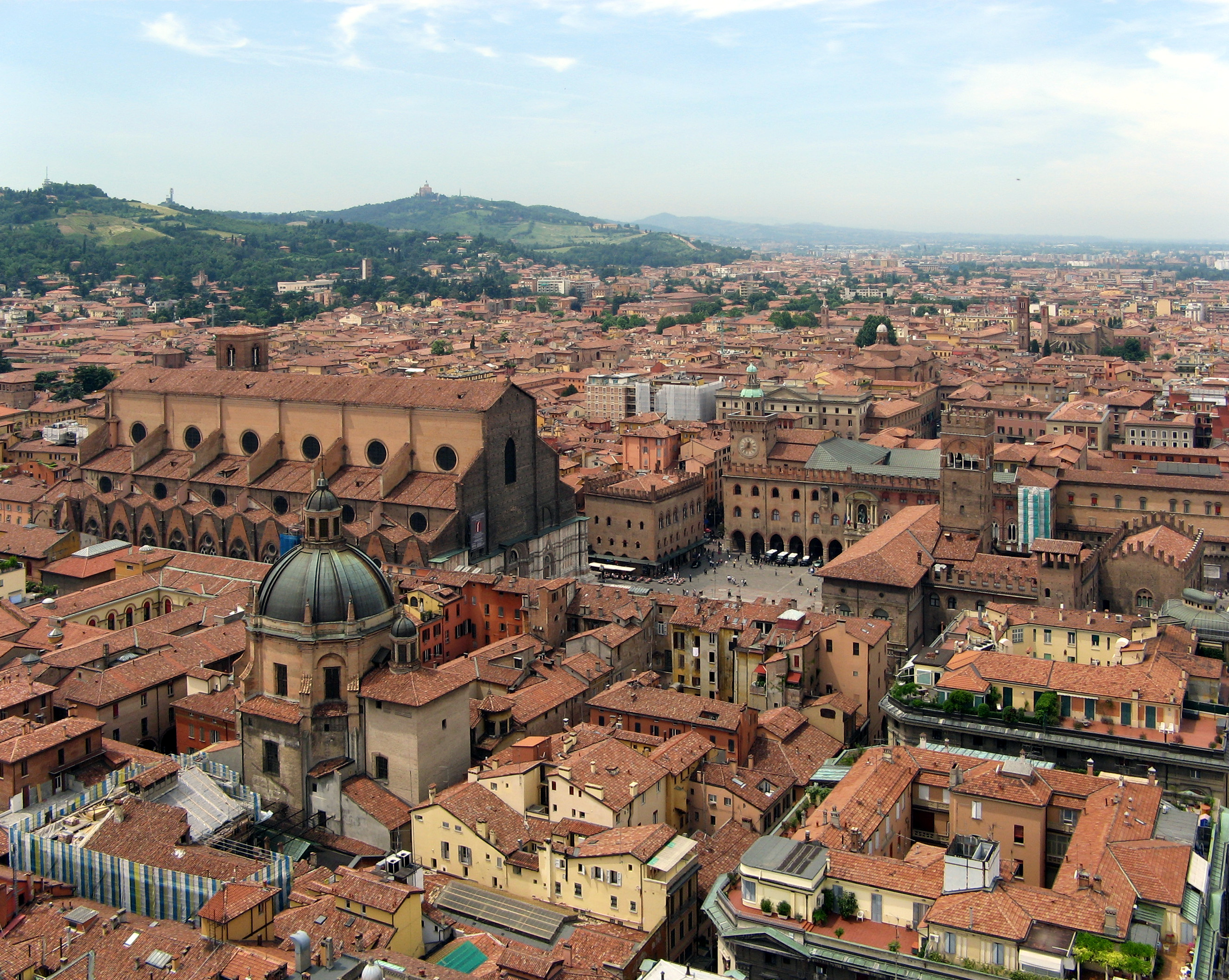 San Petronio, Piazza Maggiore and Palazzo d'Accursio, photo taken from the top of Torre degli Asinelli, Bologna, Italy.